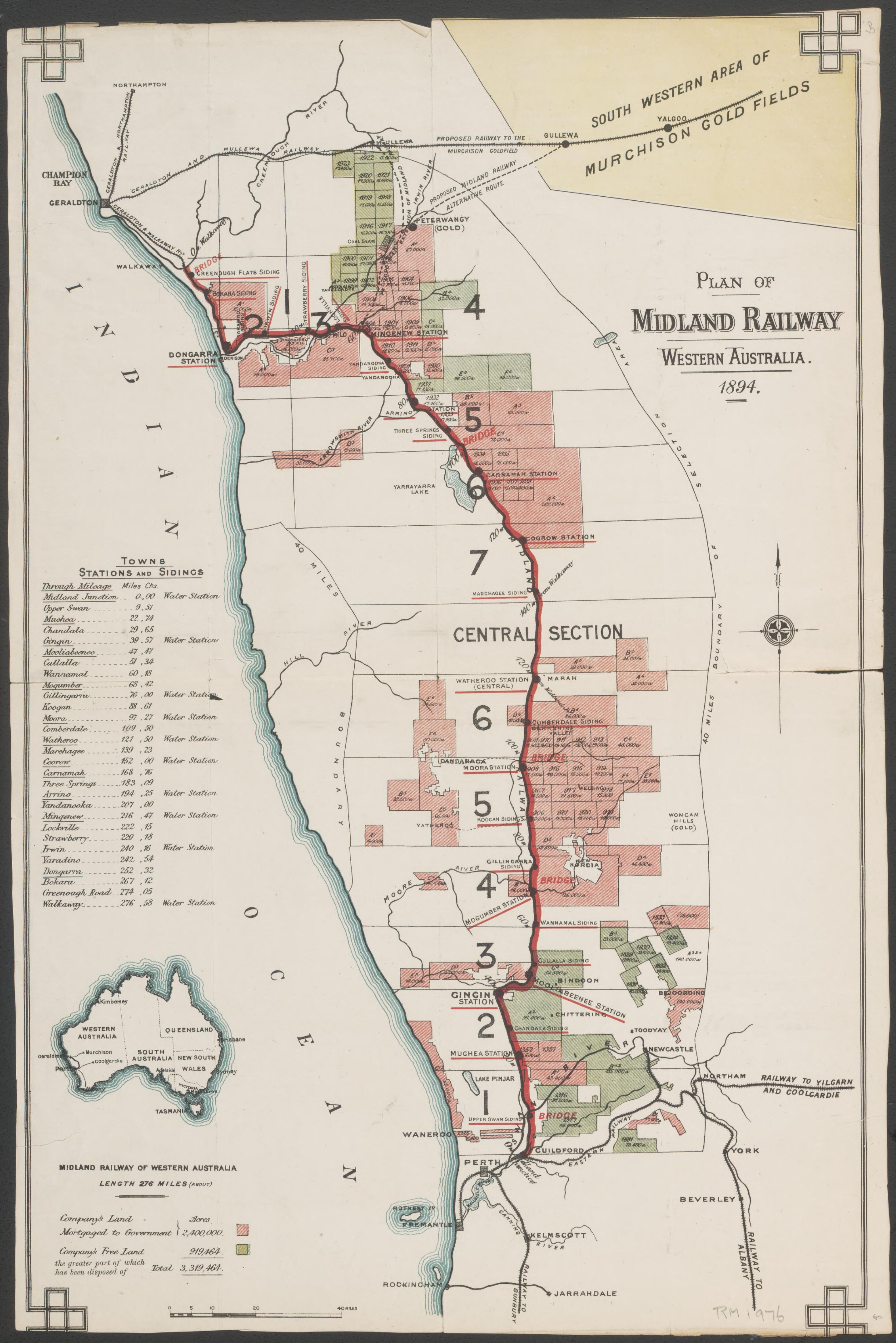 Plan of Midland Railway of Western Australia, showing extent of the railway and the mortgaged and free land allocated to the railway company.